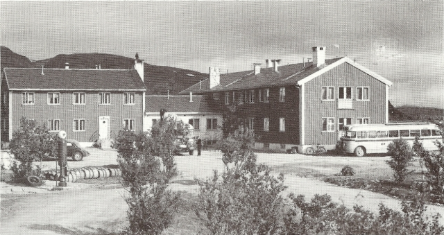 Lakselv Gjestgiveri